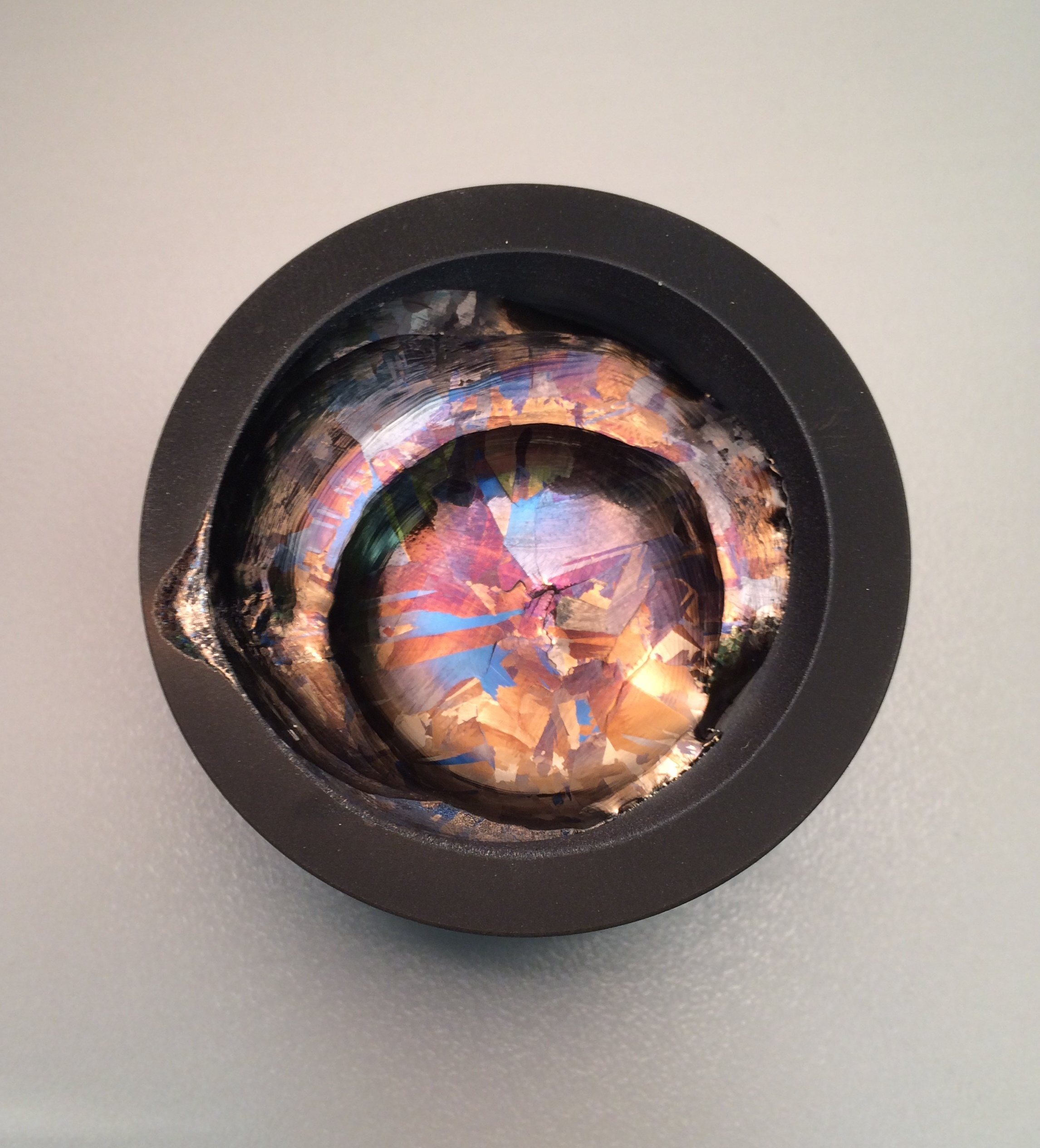 The photograph shows the crucible with hafnium frozen after the deposition process on a substrate